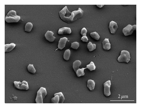 Scanning electron microscopic image of M. mahii strain SLP